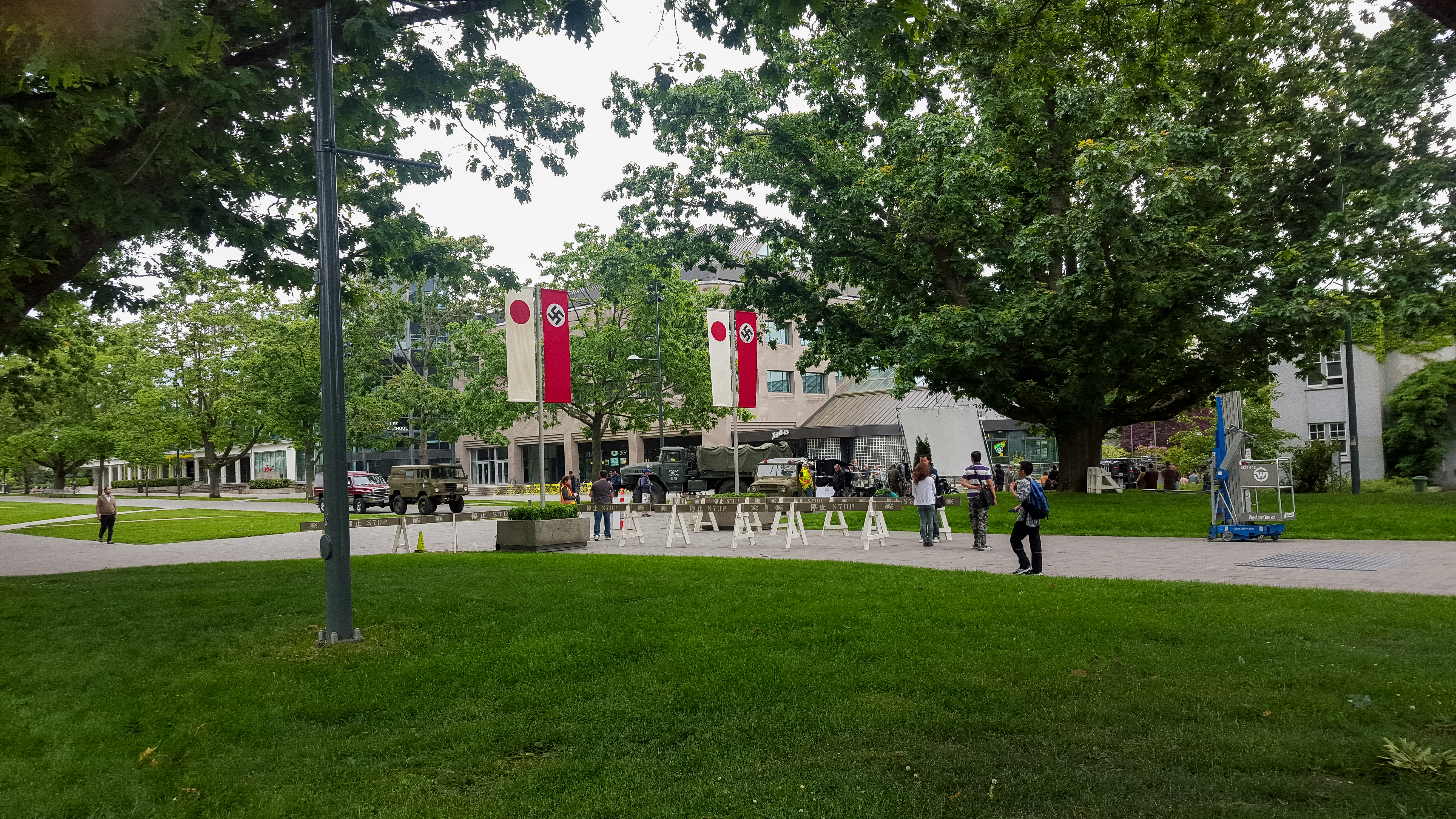 Filming of "The Man in the High Castle" at the University of British Columbia